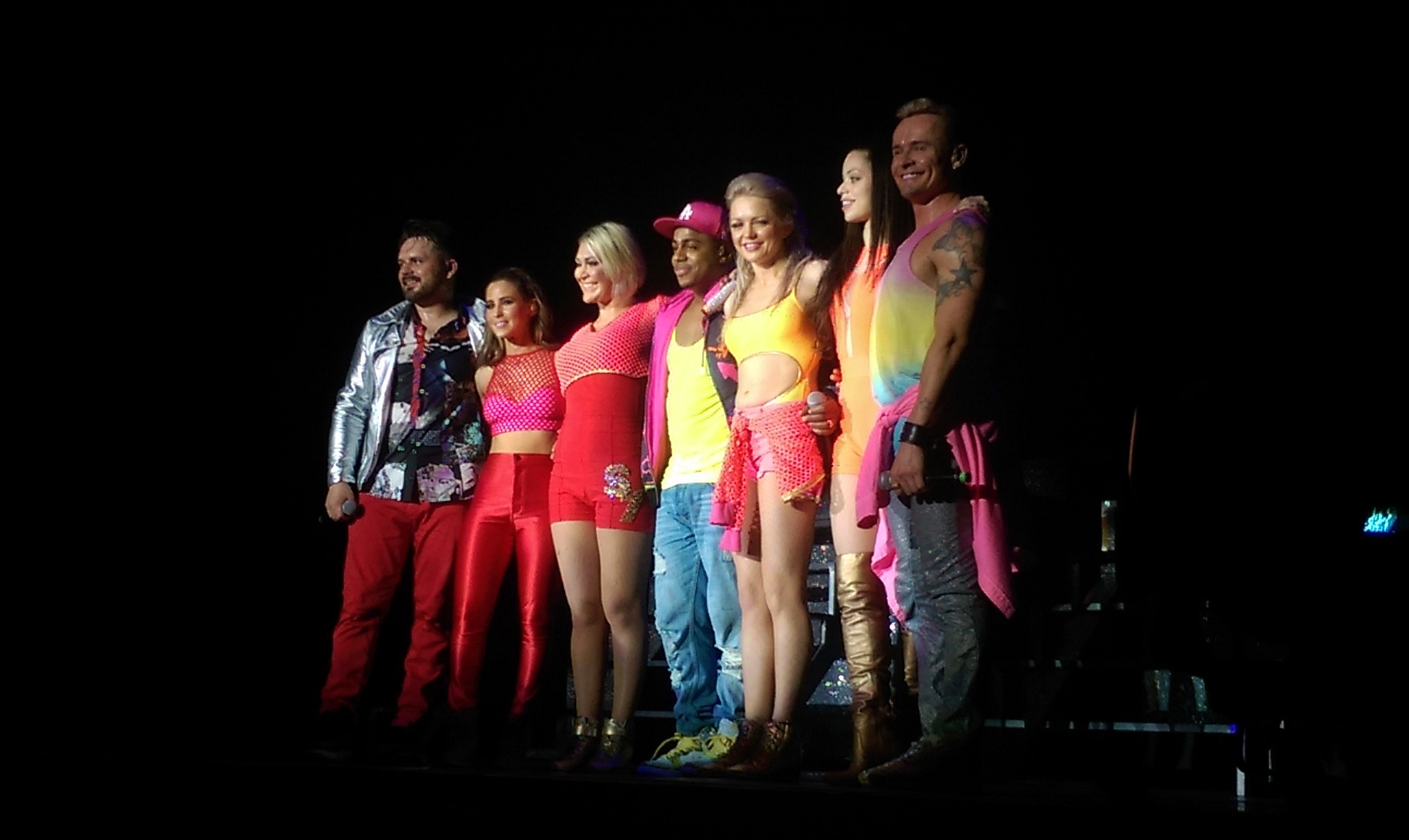 S Club 7 - Bournemouth 2015